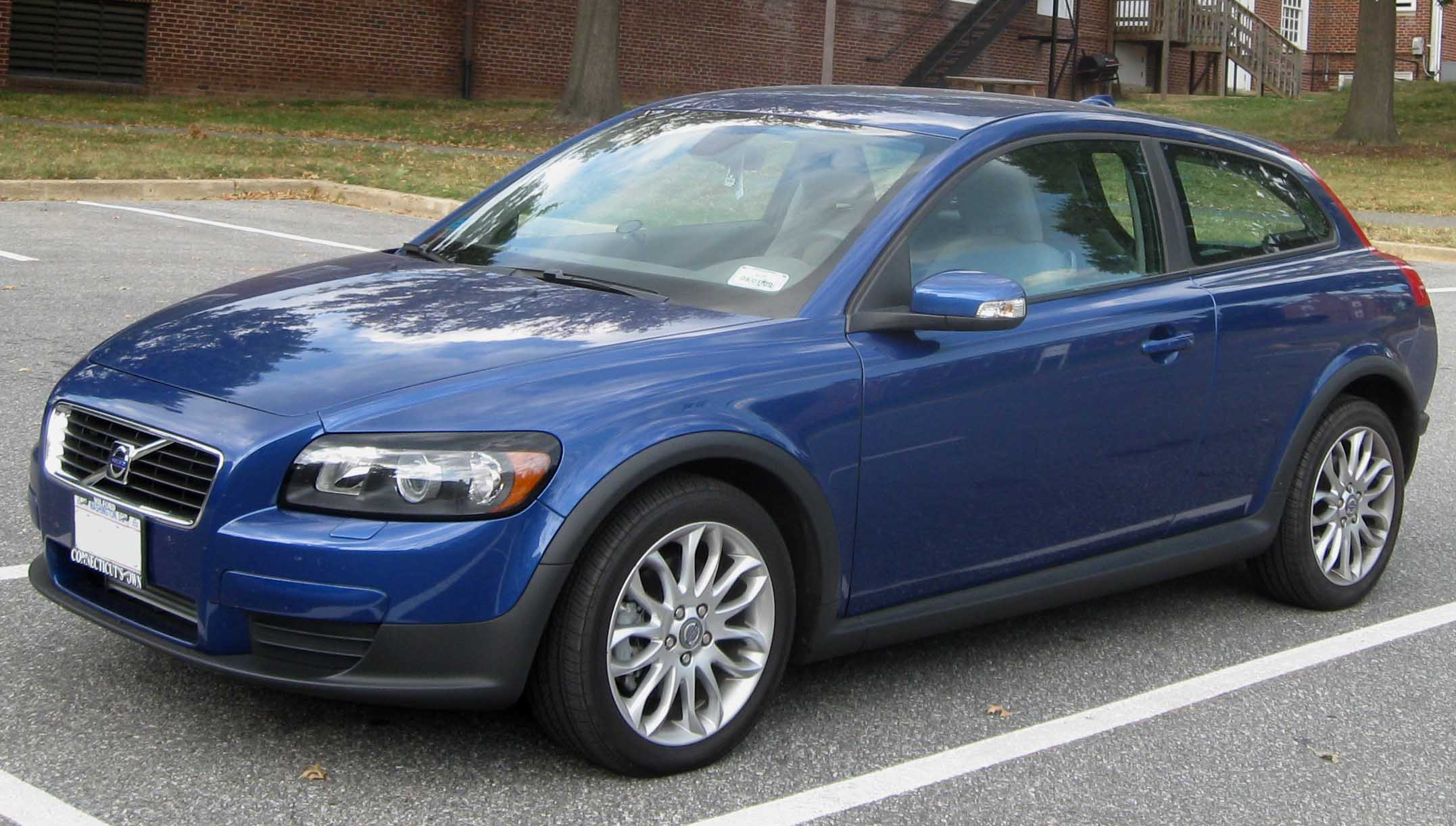 2008 Volvo C30 photographed in College Park, Maryland, USA.